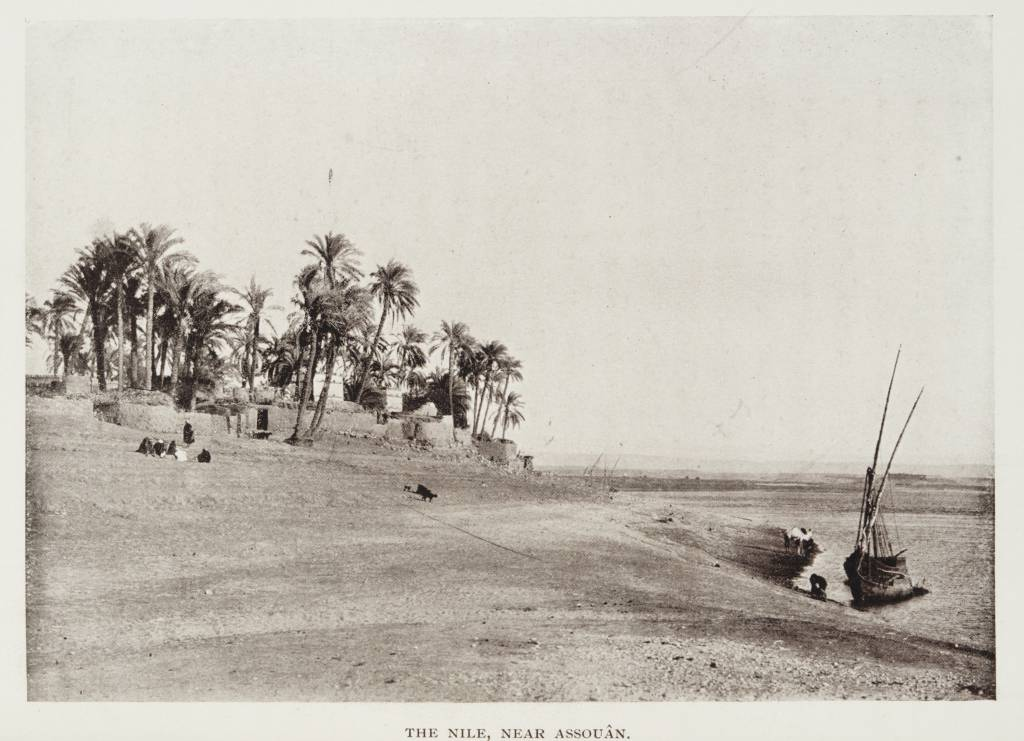 Photograph of the bank of the Nile near Assouan, with a grove of trees and a small boat visible.